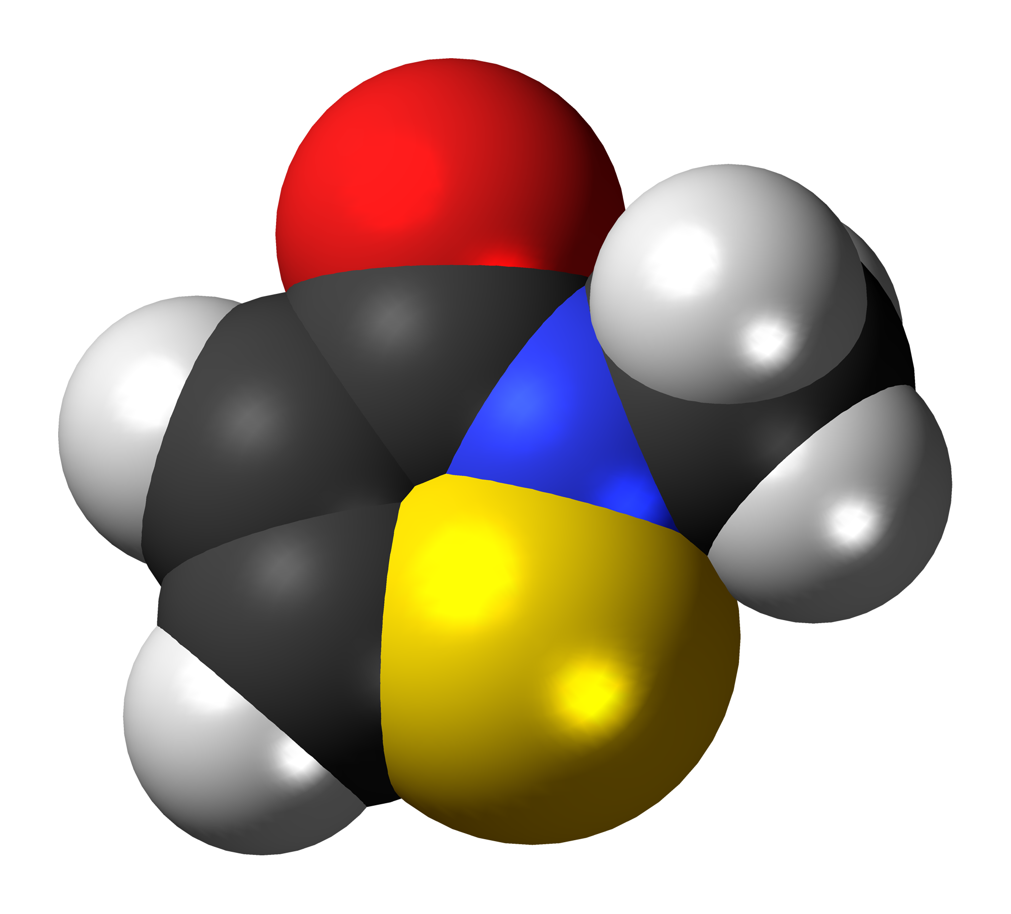 Space-filling model of the methylisothiazolinone molecule, a derivative of isothiazolinone, used as a preservative. Colour code: Carbon, C: black Hydrogen, H: white Oxygen, O: red Nitrogen, N: blue Sulfur, S: yellow